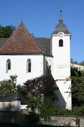 Source: Alfred Nussbaumer